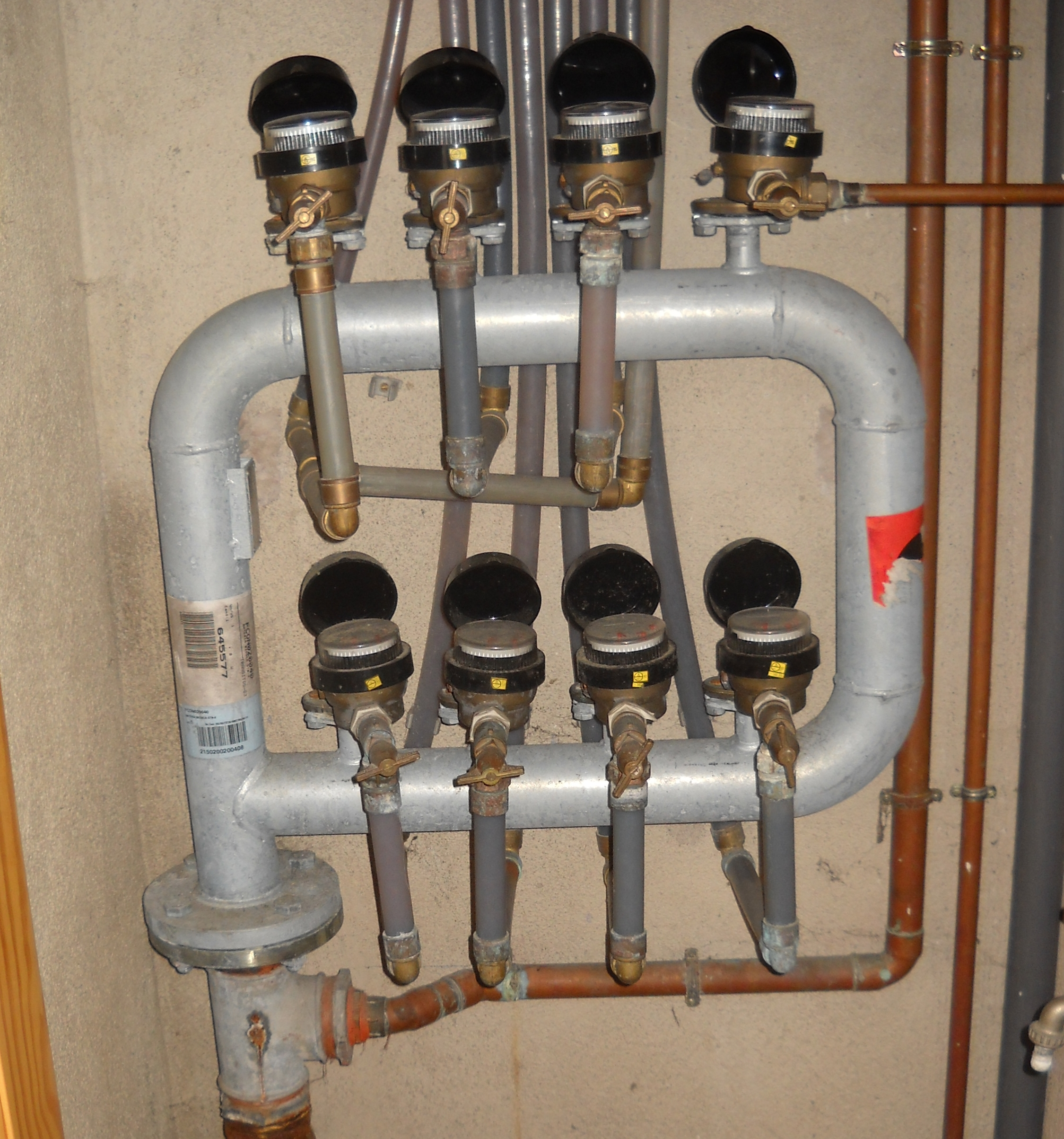 Galvanic corrosion build-up, on a galvanized steel "water-meters battery" connected to a copper piping...